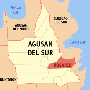 Map of the Agusan del Sur showing the location of Rosario